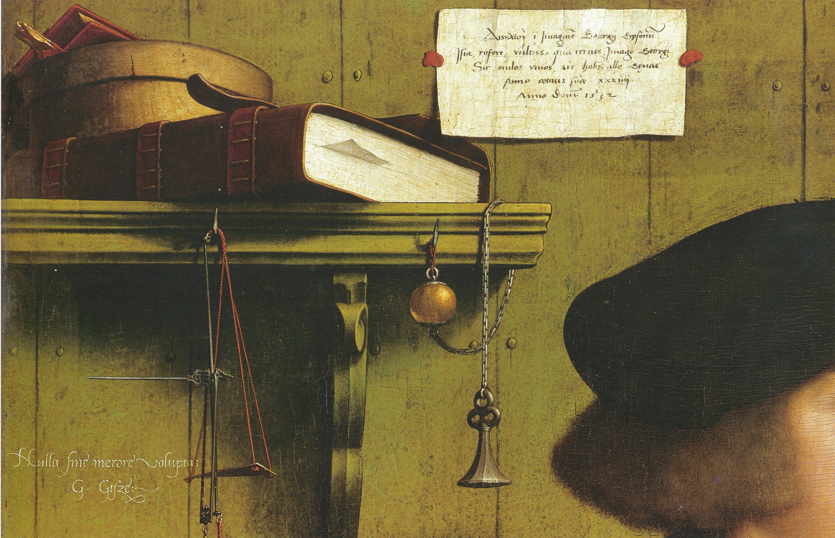 Portrait of the Merchant Georg Gisze (detail with inscription). The latin poem (with Greek title) Διςνχων i Imagine Georgii Gysenii Ista, refert vultus, qua cernis, Imago Georgi Sic oculos viuos, sic habet ille genas Anno aetatis suae xxxiiij Anno dom 1532 means Distichon on George Gisze's picture That what you see is George's picture, showing his features, how vivid his eyes are and how his cheek is formed In his 34th year of age A.D. 1532